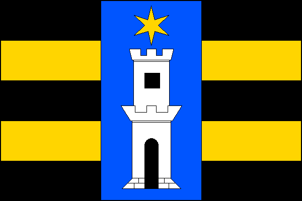 Municipal flag of Drnovice village, Blansko District, Czech Republic.